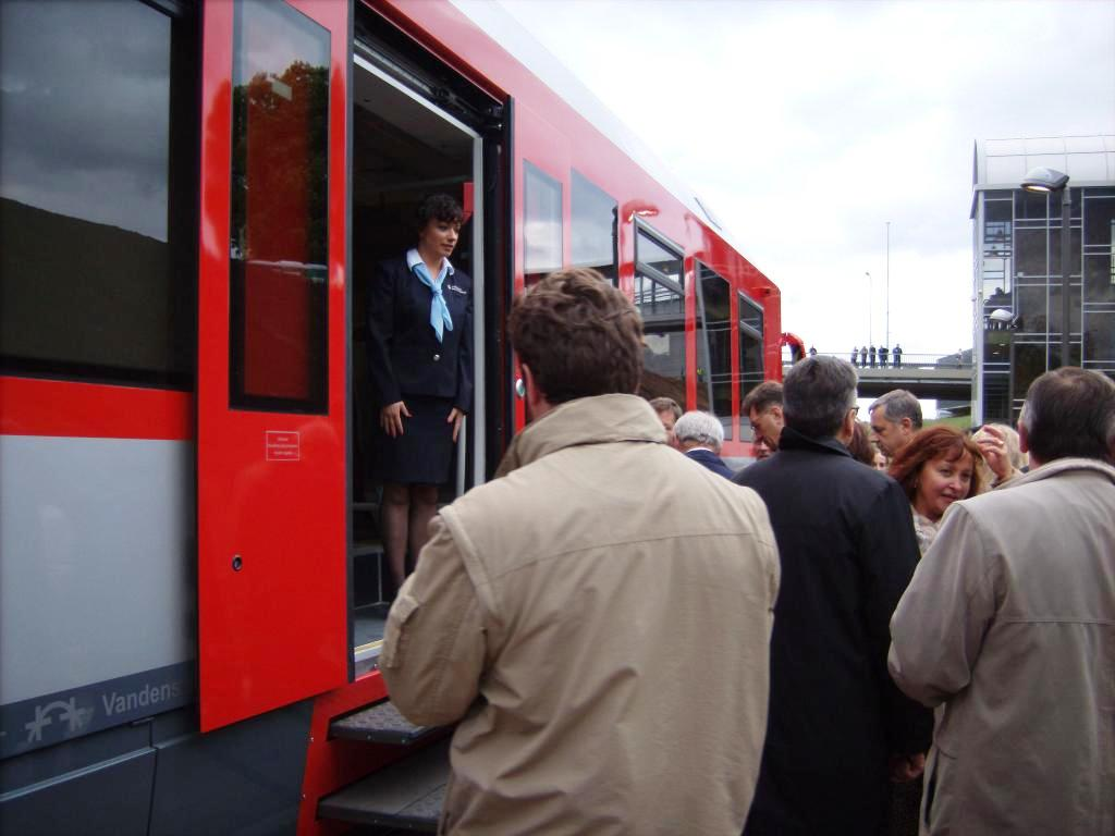 Train at Vilnius airport railway station